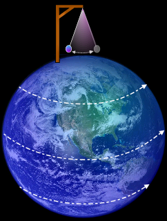 Foucault pendulum at North Pole. Modified so axis of Earth goes directly through center of pendulum's swing.